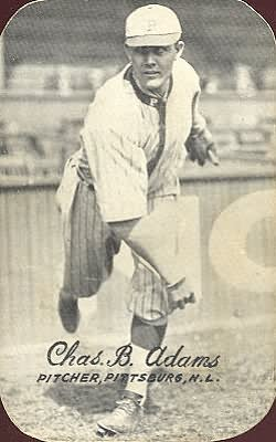 1921 Exhibits Baseball Card of Babe Adams of the Pittsburgh Pirates